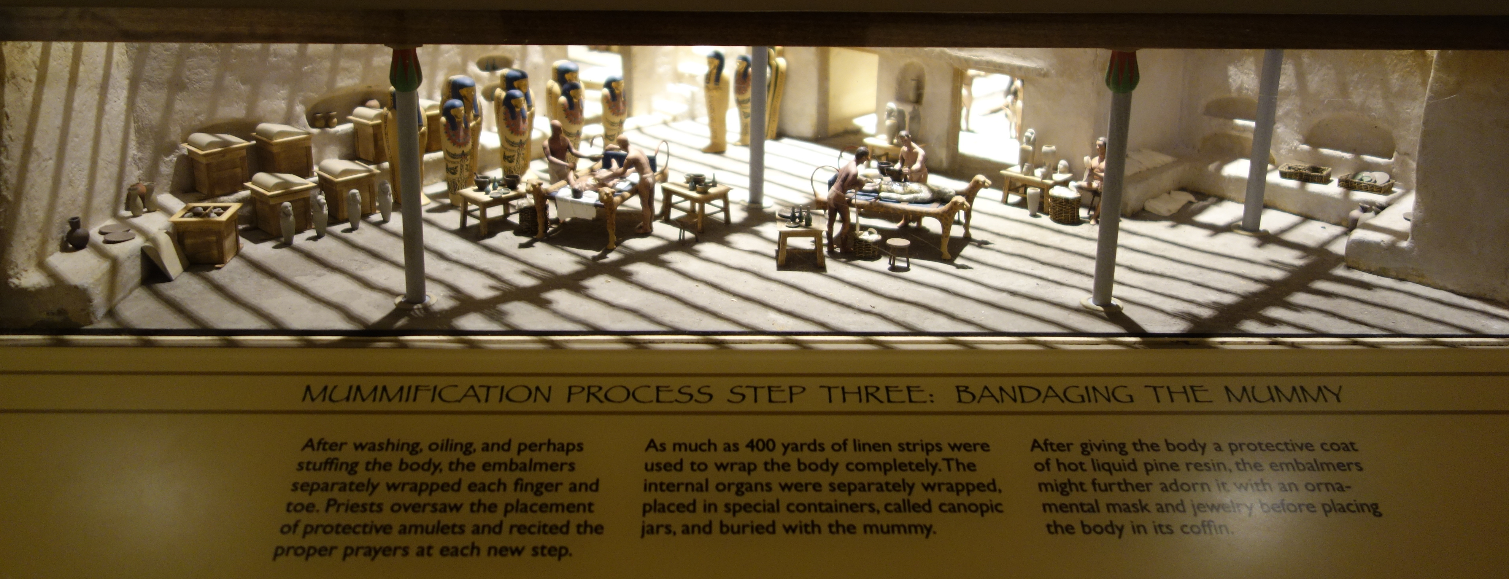 Exhibit in the Fitchburg Art Museum, Fitchburg, Massachusetts, USA. This artwork is old enough so that it is in the public domain.